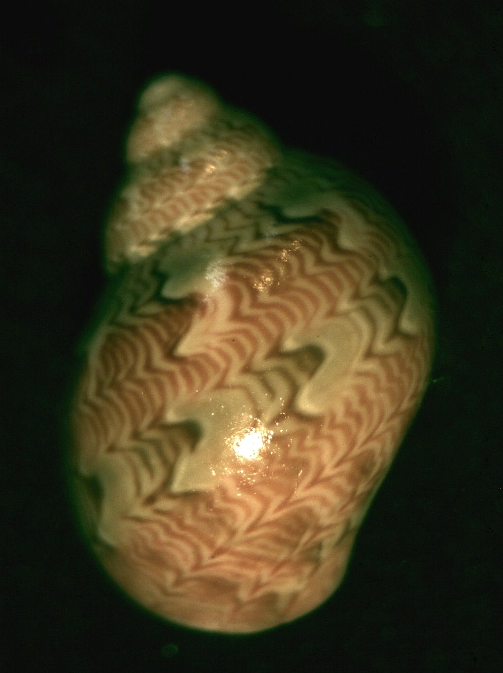 Tricolia gabiniana (Cotton & Godfrey, 1938), a sea snail from the family Phasianellidae; South Australia